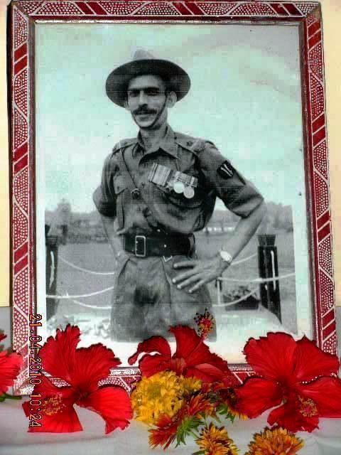 He is the main source of inspiration for all school members, who had learned under him....